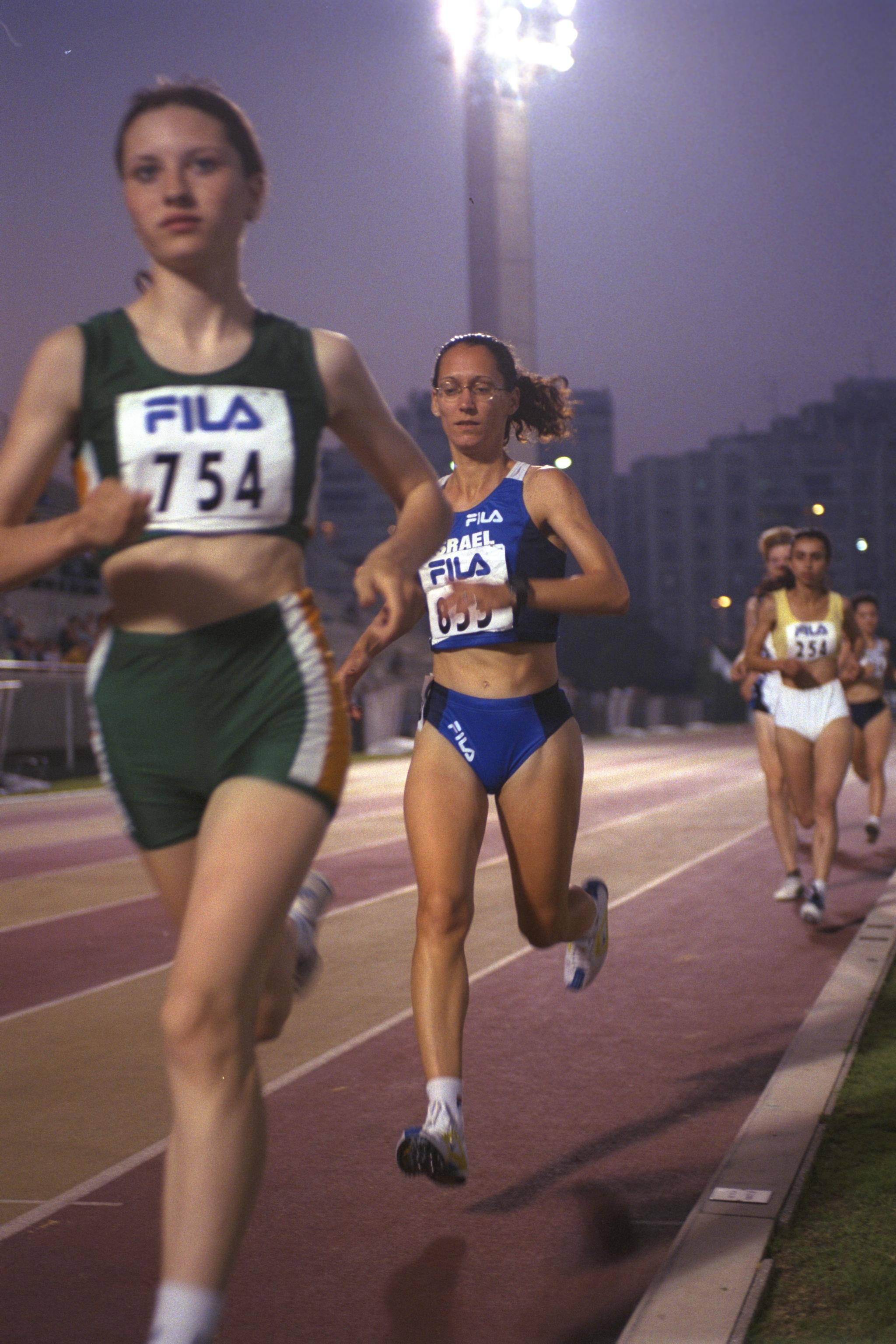 The European nations cup in athletics, held at the Hadar Yosef stadium in Tel Aviv. In the photo, Nili Abramsky (blue) participating in the women's 5000m race.